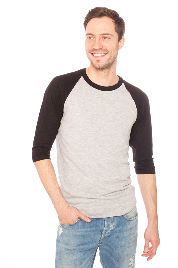 A man wearing a raglan sleeved shirt.